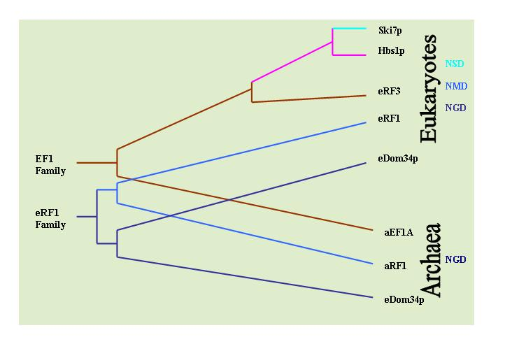 Phylogenetic picture